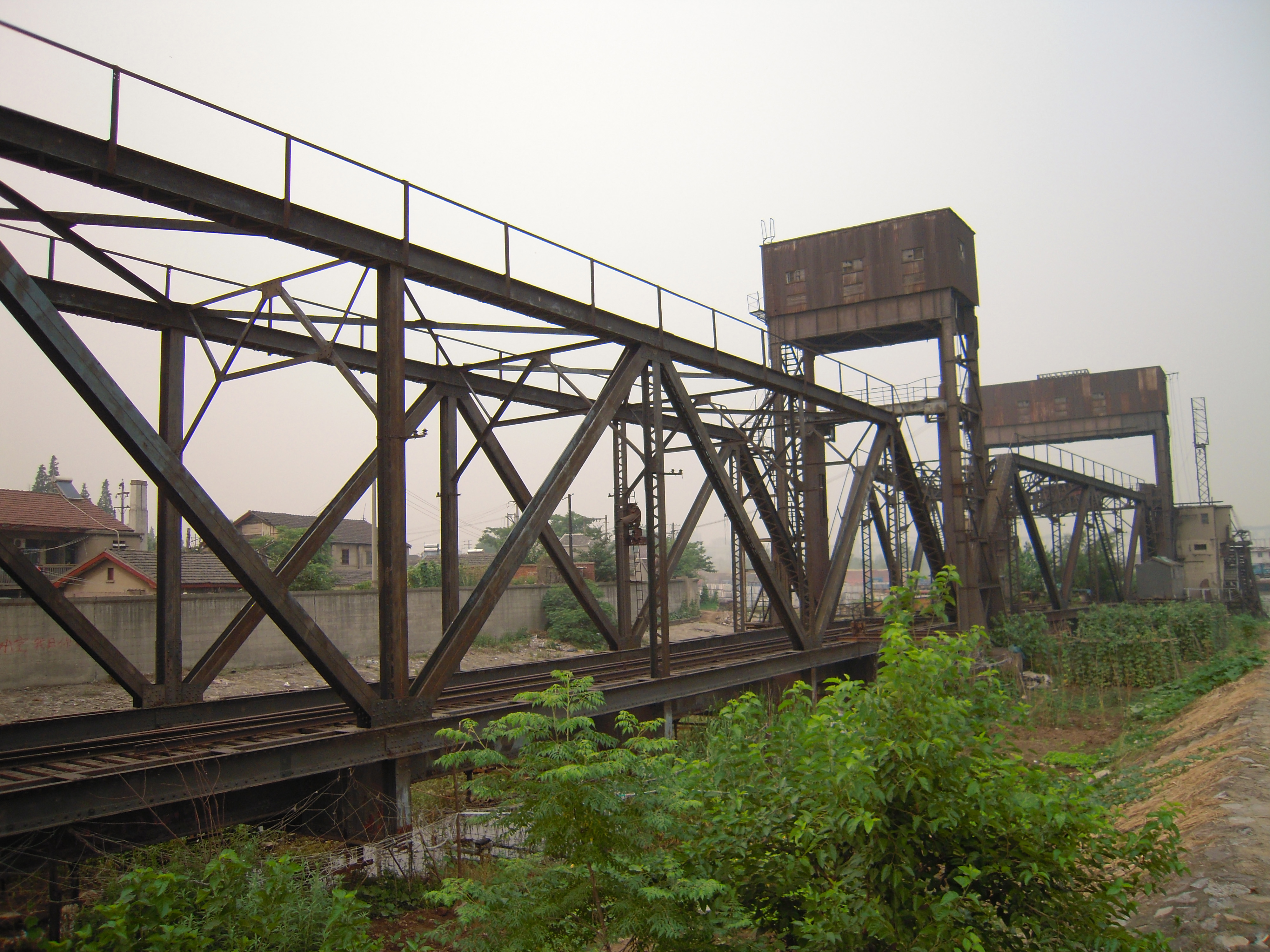 Train Ferry (out of service) in Pukou, Nanjing